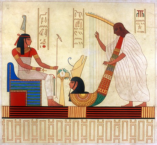 Harper playing before Shu [and Atum].